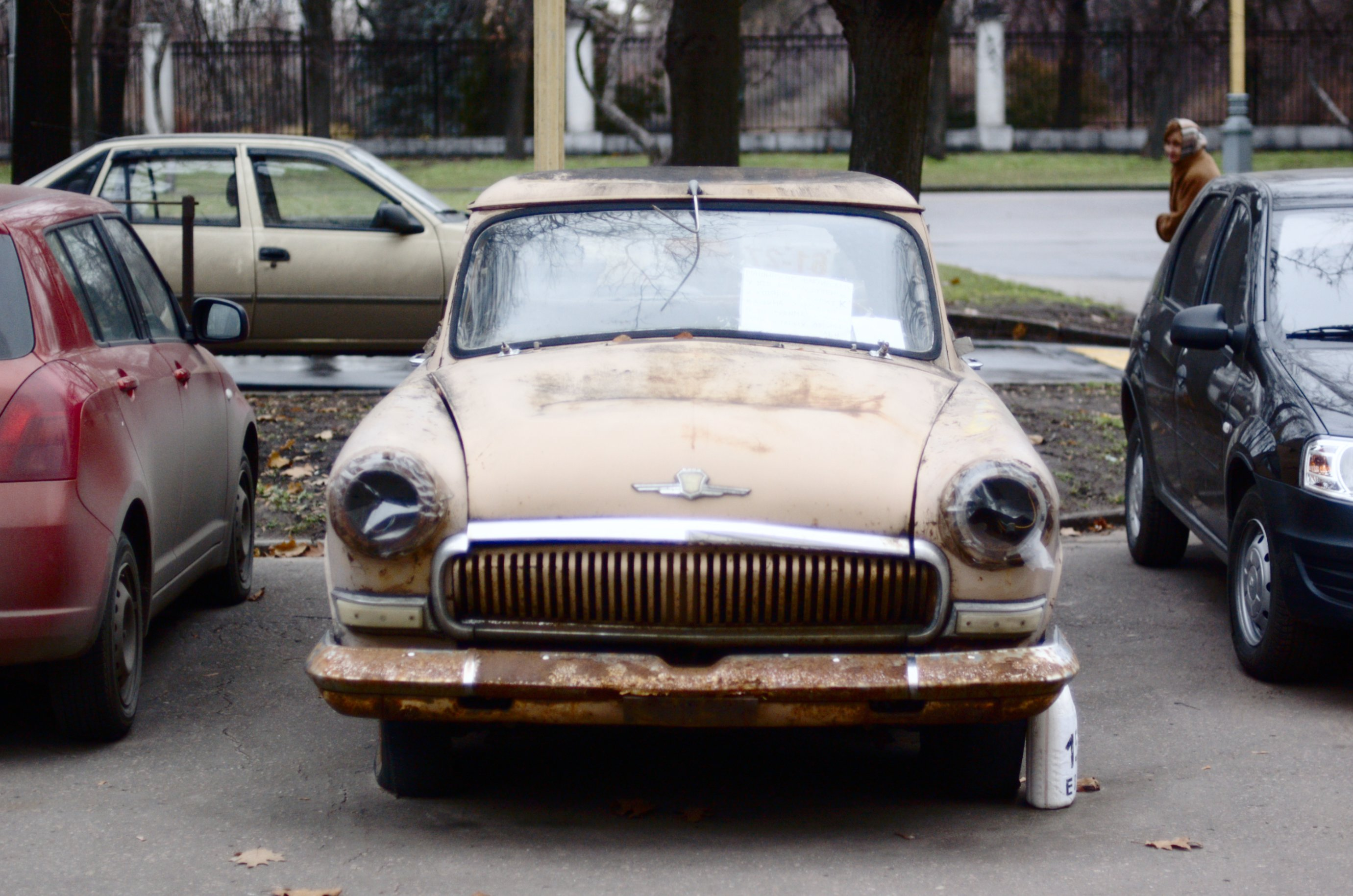 The inscription on the windshield: «Not evacuate! The car participates in recycling program.» That means that owner could buy new car produced in Russia with 50000 rubles (~$1800) discount if he recycles his old car (older 10 years). Gaz M21 Volga was produced from 1956 to 1970 in Nizhny Novgorod (USSR).